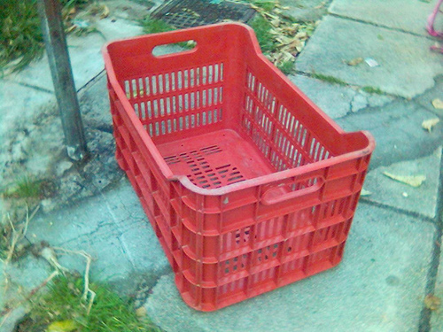 Crate